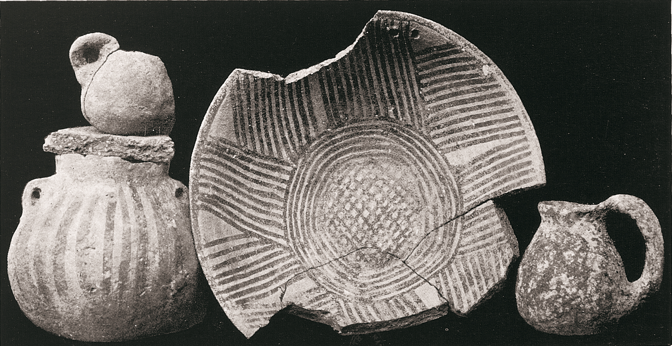 Photograph of Parker mission.